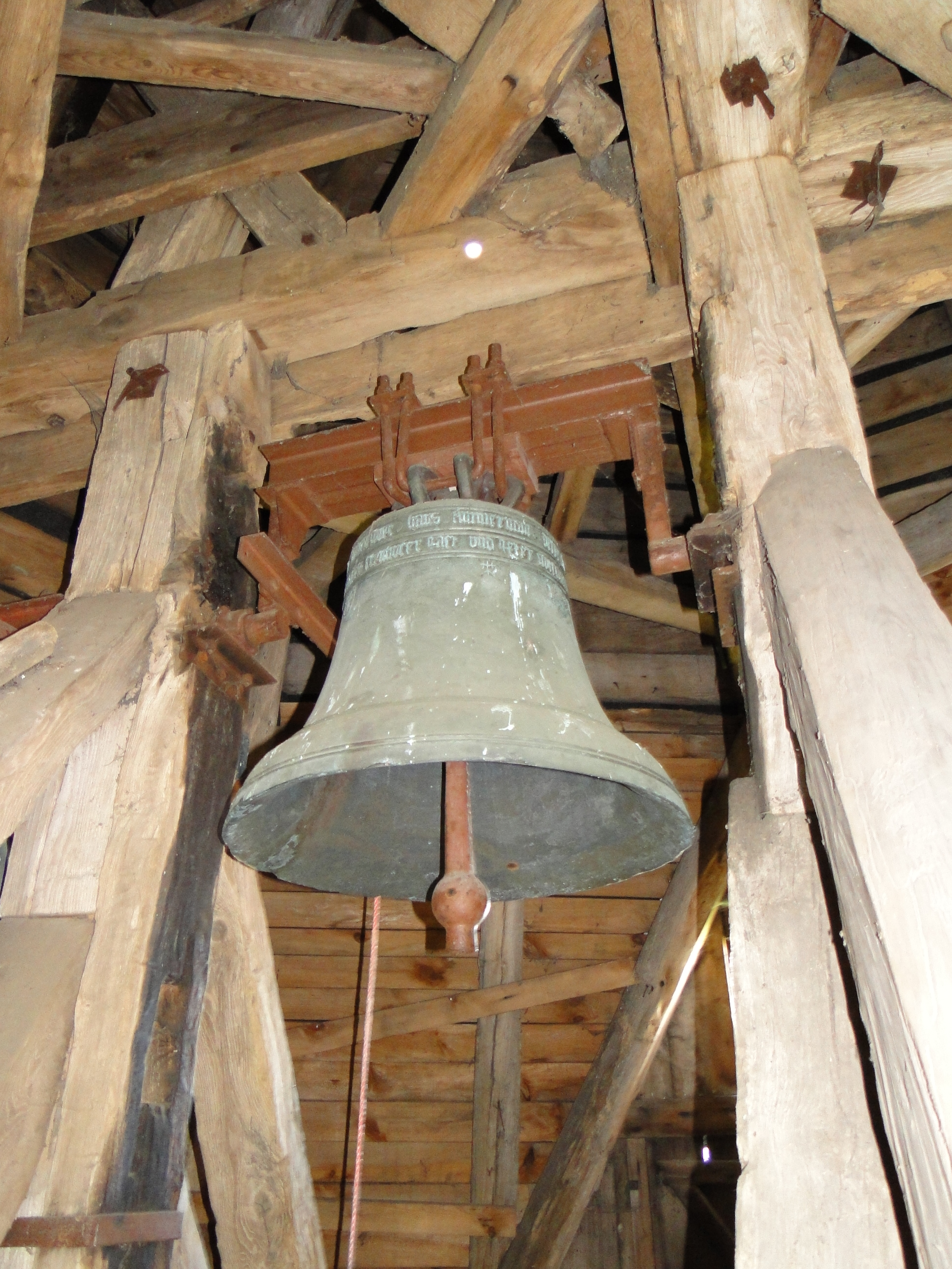 Bell in the church in Below, district Ludwigslust-Parchim, Mecklenburg-Vorpommern, Germany